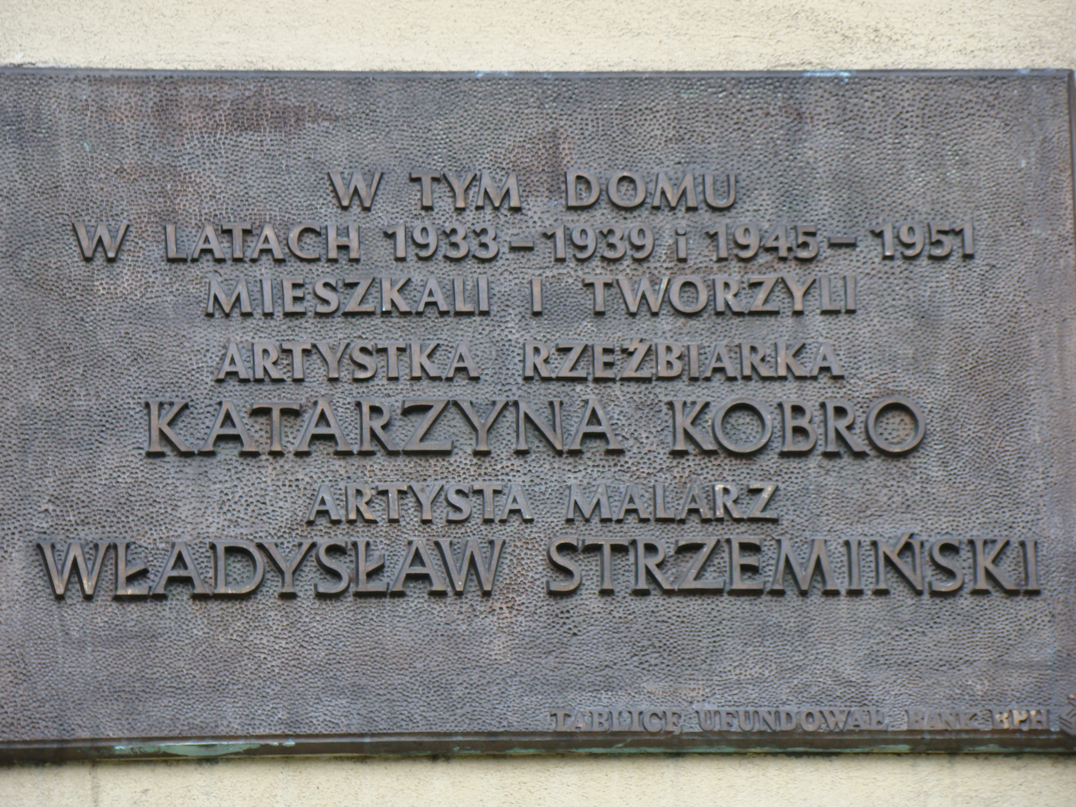 District of Łódź - Osiedle Montwiłła-Mireckiego (42)